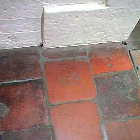 Photograph taken by me in the Crypt of St Paul's Cathedral 22 October 2009